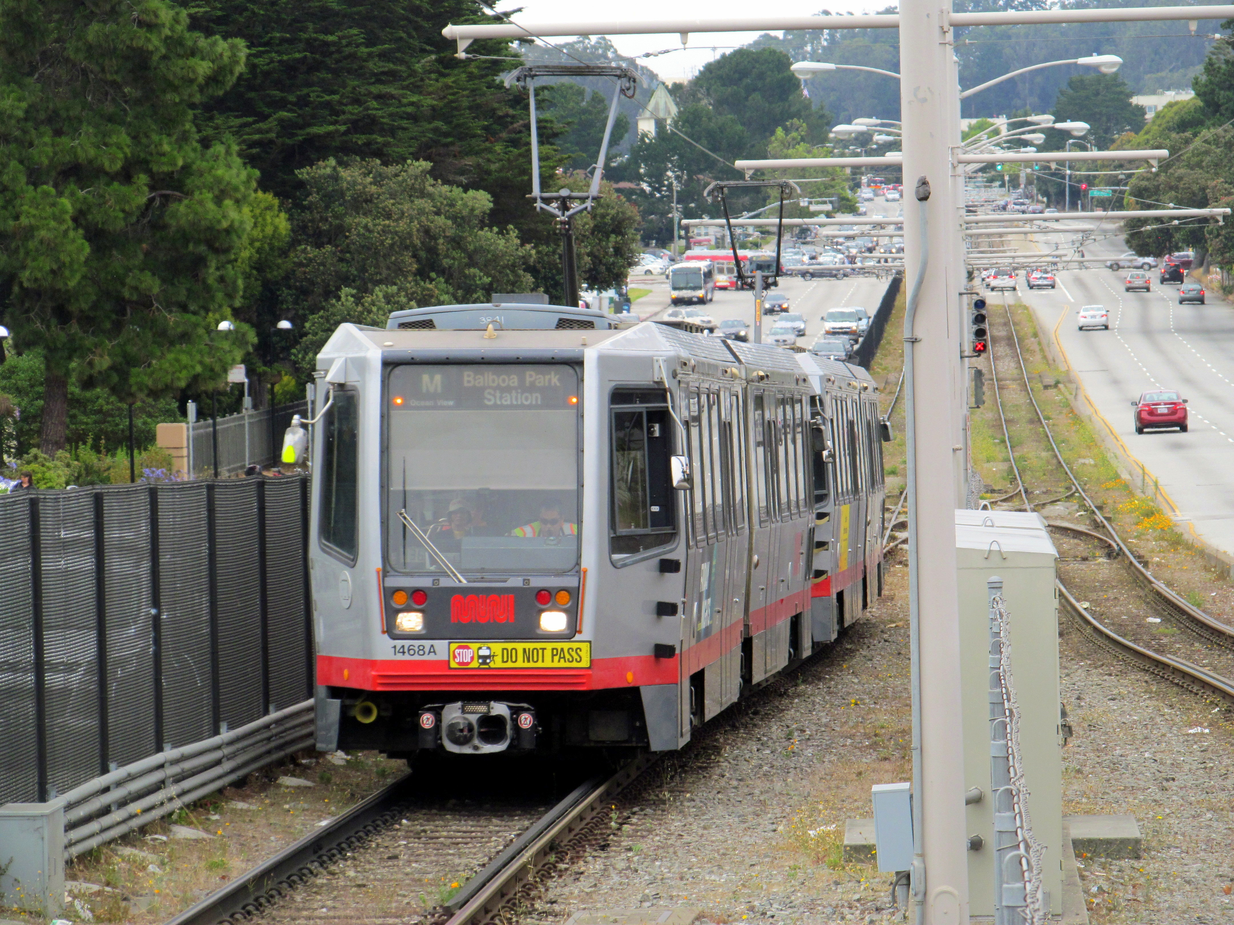 An outbound M Ocean View train in the median of 19th Avenue approaching SFSU station in July 2017